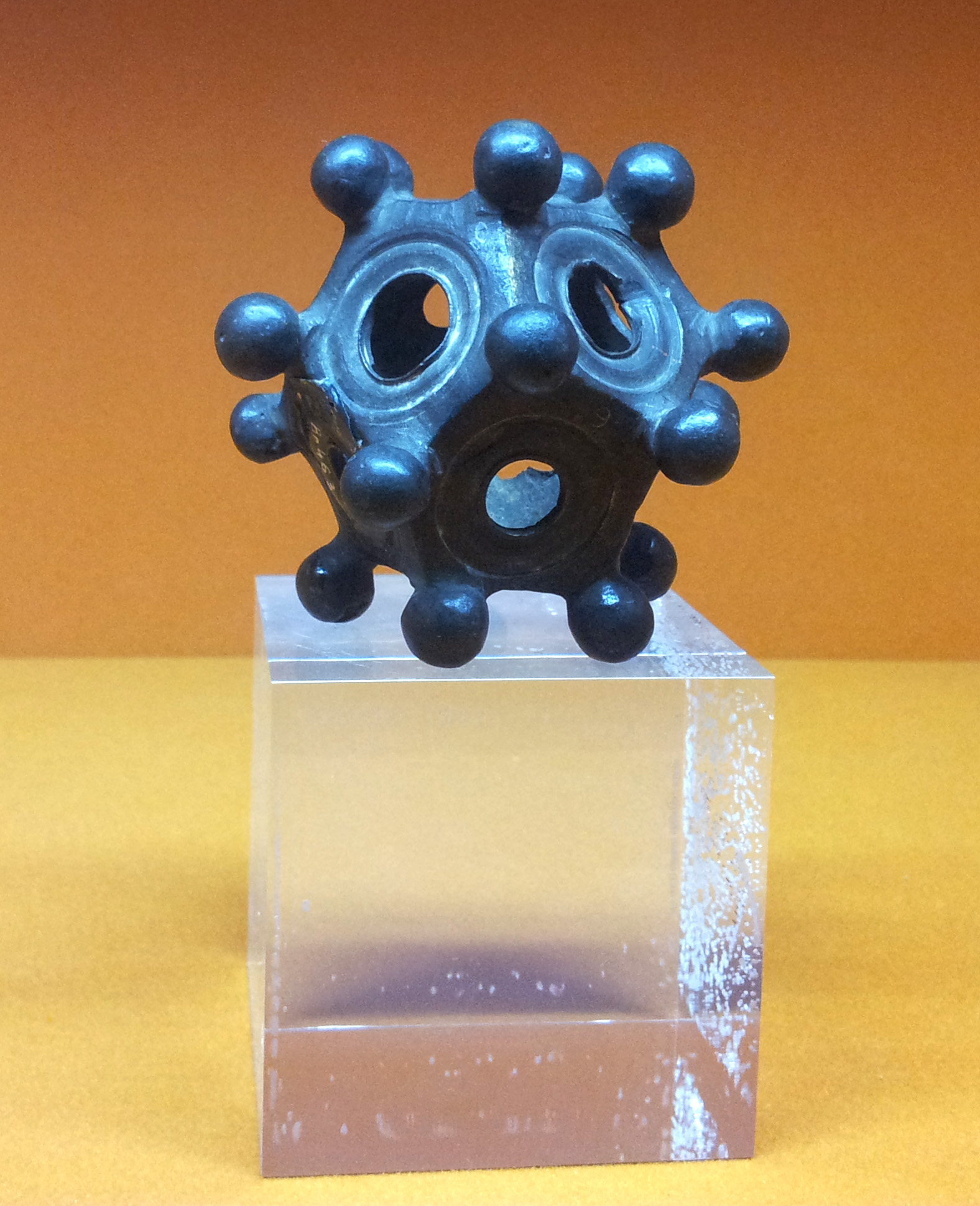 Roman dodecahedron in Musée gallo-romain de Fourvière (Lyon, France)